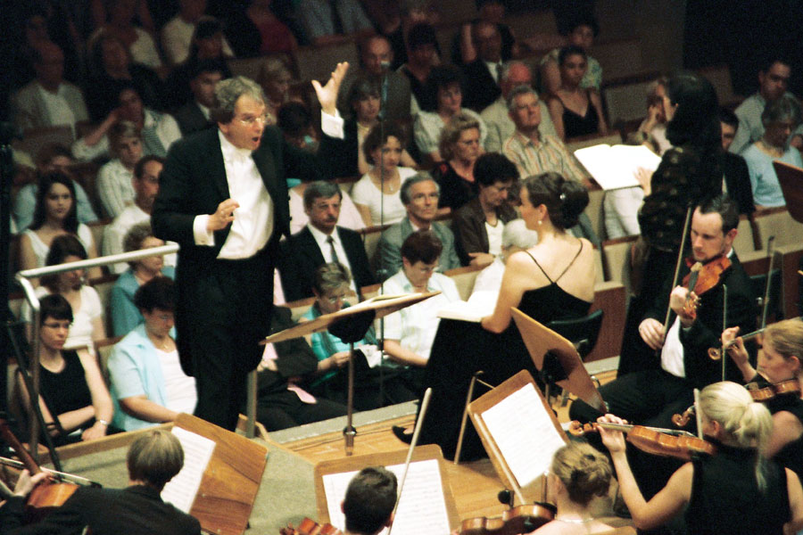 Leader, Prof. Dr. Theodor Schmitt, with choir and orchestra of the Munich University of Applied Sciences at a concert in the “Herkulessaal” of the Residence, Munich